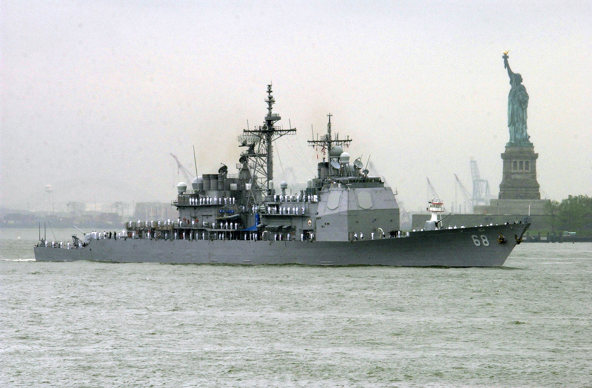 New York City, N.Y. (May 26, 2004) - The guided missile cruiser USS Anzio (CG 68) sails past the Statue of Liberty in New York Harbor during the parade of ships at the beginning of the 17th annual Fleet Week in New York City. Over 4,000 Sailors, Marines and Coast Guardsmen on twelve ships are participating in this year's event held from May 26 to June 2. U.S Navy photo by Photographer's Mate Airman Orlando Quintero (RELEASED)